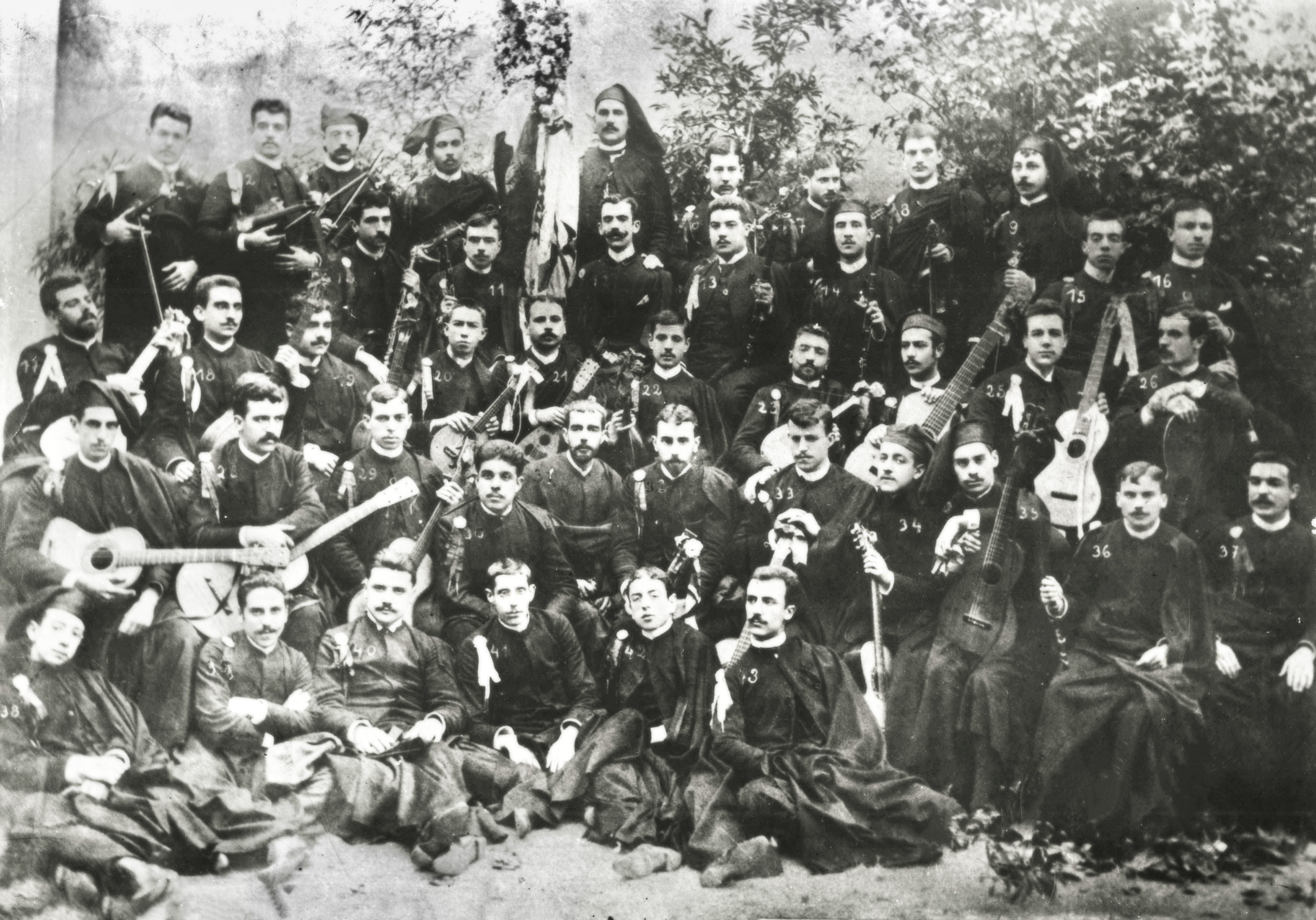 Is the photo of the Tuna Académica da Universidade de Coimbra in 1888.